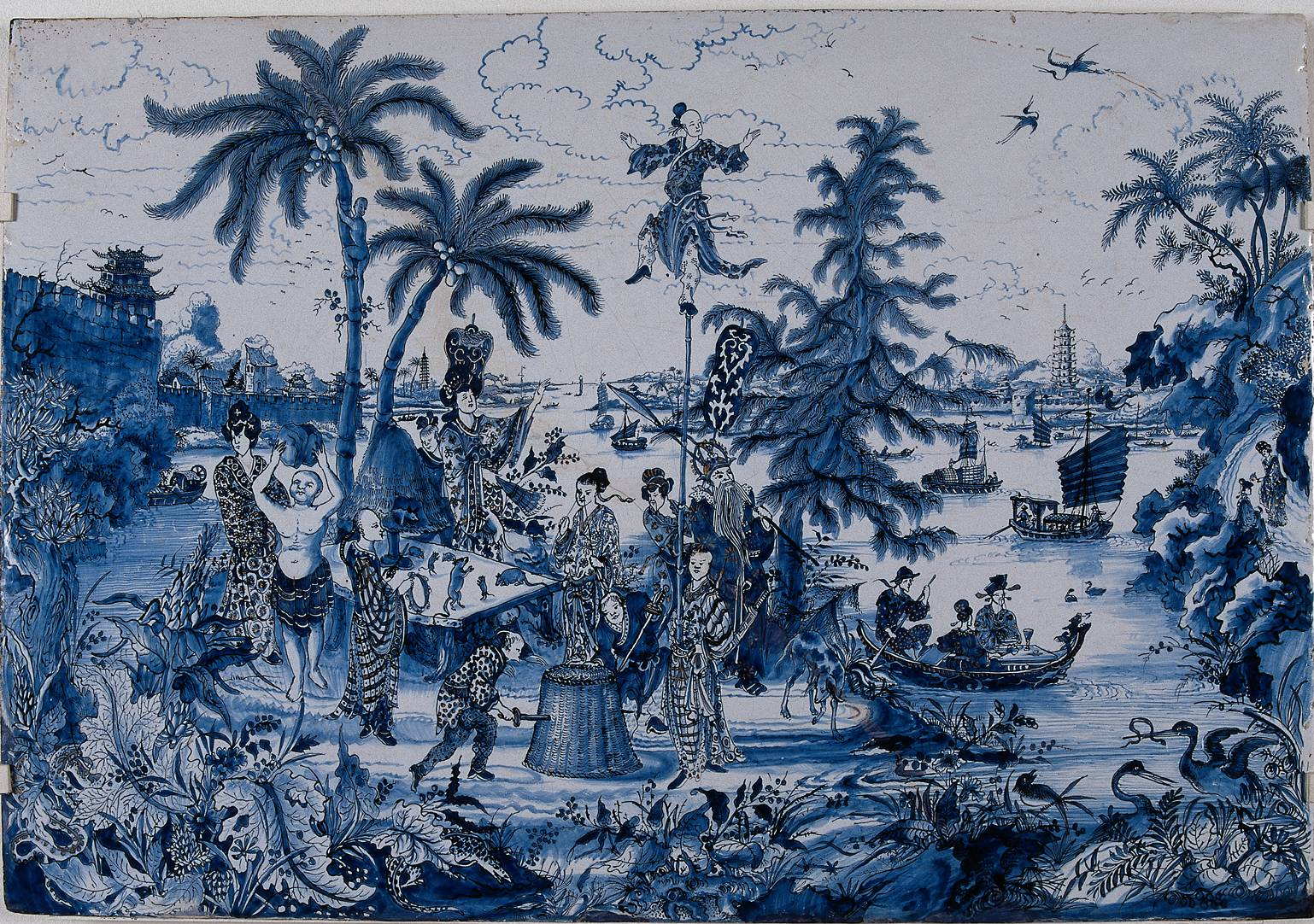 A plaque (a large tile) of Delftware pottery, used as a wall decoration.